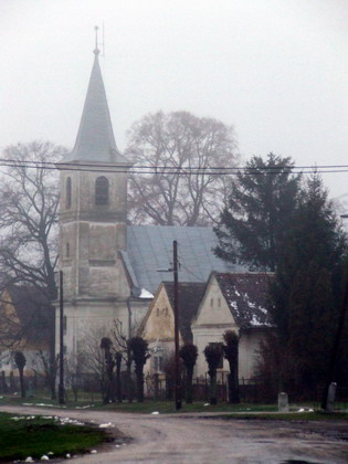 Sósvertike falurészlet